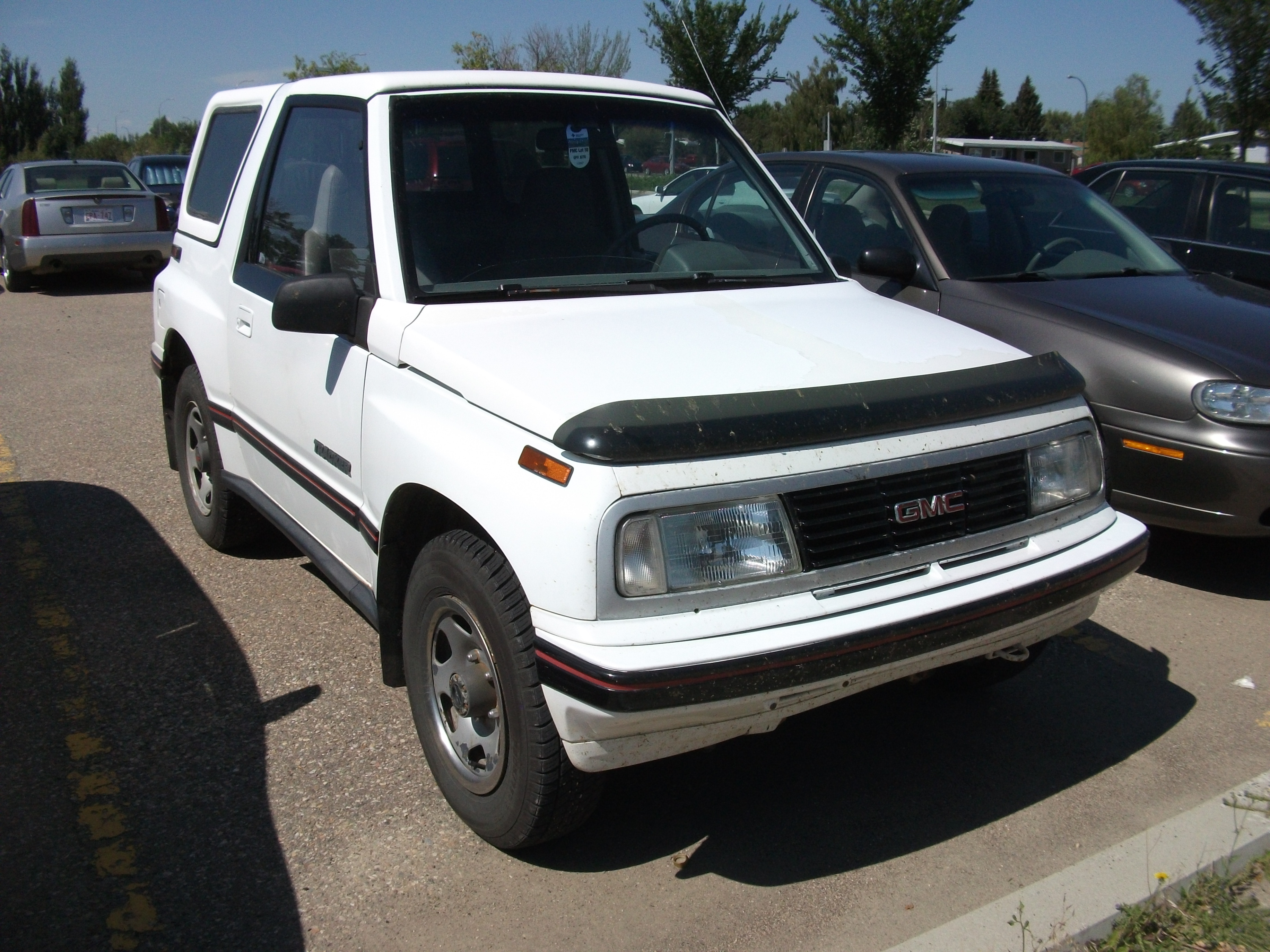 1989 or 1990 GMC Tracker which was sold at Pontiac-Buick-GMC dealerships in Canada.